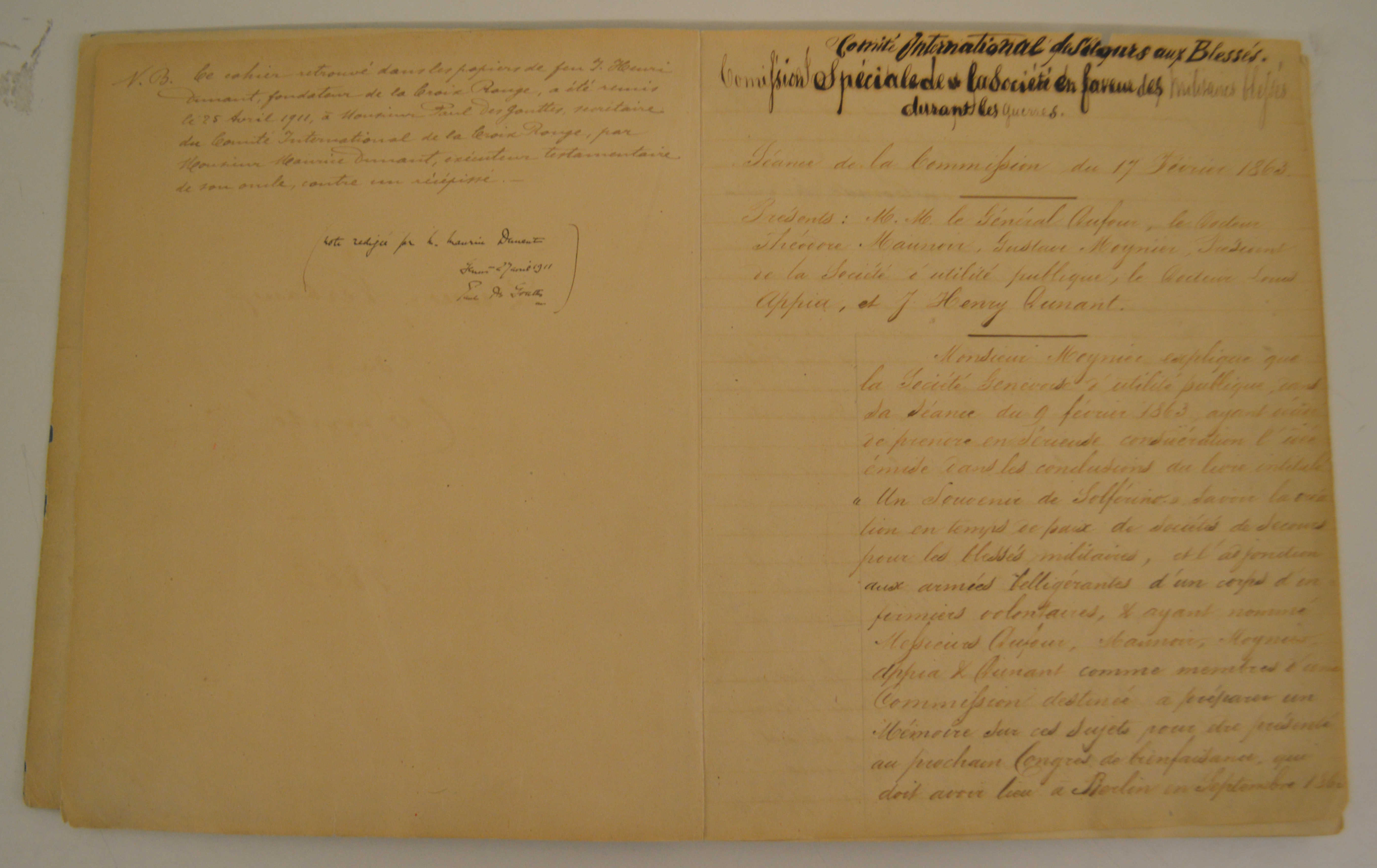 First page of the handwritten minutes of the first meeting of the International Committee for Relief to the Wounded, the precursor of the International Committee of the Red Cross (ICRC), signed by its Secretary Henry Dunant. It is the first document collected by the ICRC archives. - Photo taken and uploaded in the context of the International Archives Week 2020 of Wikimedia Switzerland, Austria and Germany and the Association of Swiss Archivists.